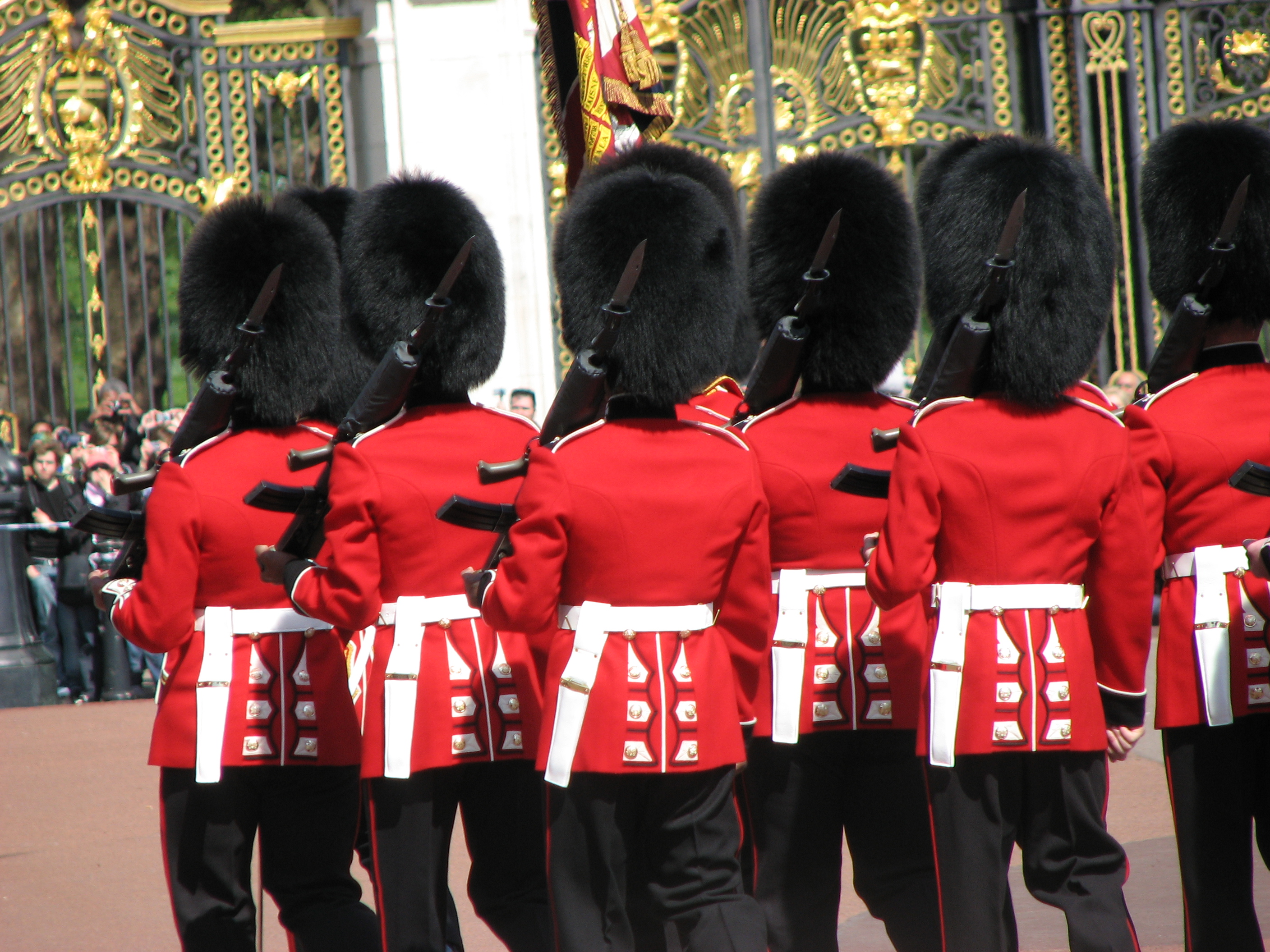 Changing of the Guard at Buckingham Palace.